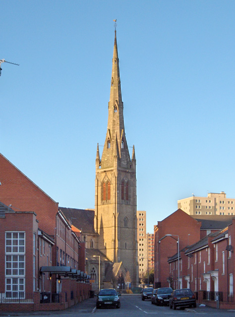 Landmark Spire The church building formerly housing the St Mary's Church of England congregation remains as a significant landmark. However, it is now in the process of being turned into apartments. This has taken a very long time (several years) and the building remains unoccupied to date. The foreground shows houses along Rook Street in Hulme, Manchester. In the background are tower blocks which are not in Manchester at all, but Old Trafford!